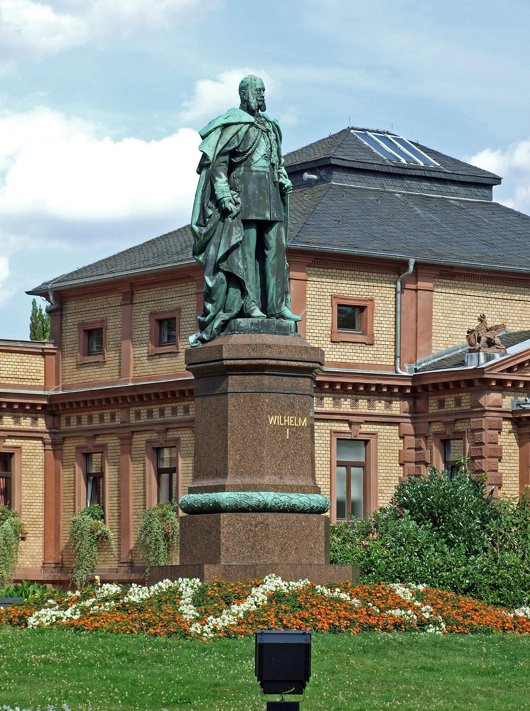 Statue of "William I, German Emperor", at "Kurpark" in front of "Kaiser Wilhelms Bad", 1905, sculptor Fritz Gerth, Bad- Homburg, Hesse, Germany.